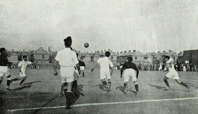 1938s Yaohua football game